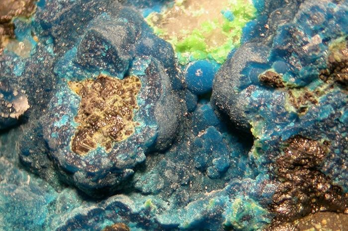 Arhbarite Locality: El Guanaco Mine, Guanaco (Huanaco), Santa Catalina, Antofagasta Province, Antofagasta Region, Chile (Locality at ) Blue globules and crust of Arhbarite. Field of view 8 mm. Specimen and photo Leon Hupperichs.